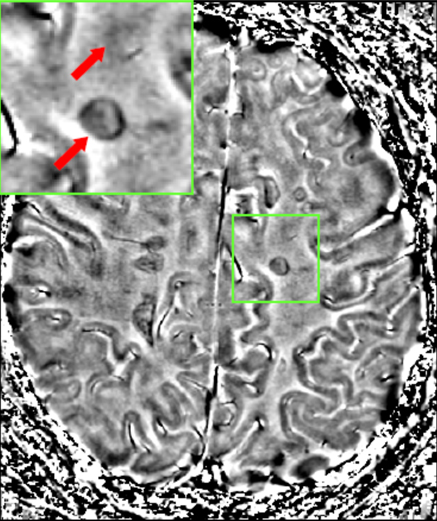 Description in article for the original image: Figure 5. FLAIR (3T) and GRE phase (7T) images of a patient with active relapsing-remitting MS. FLAIR images show numerous white matter MS lesions of which 2 are magnified (inset, red arrows). Phase imaging at 7T phase/GRE reveals a hypointense ring corresponding with one lesion on FLAIR. The other lesion is not visible on 7T GRE (inset, arrows). After cropping, only the GRE phase brain scan (right of the original image) was left. Other info copied from article by uploader of file: Gradient-echo (GRE) phase imaging at ultra-highfield MRI is highly sensitive for iron. A number of GRE studies with MS patients and autoptic MS tissue, including our own have demonstrated that iron accumulates in white matter and cortical lesions.